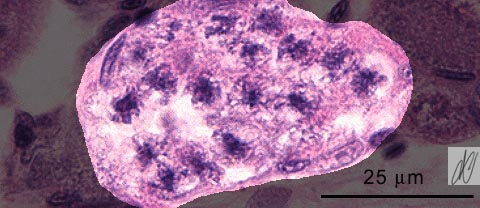 Developing zebrafish ovary, meiotic oogonia